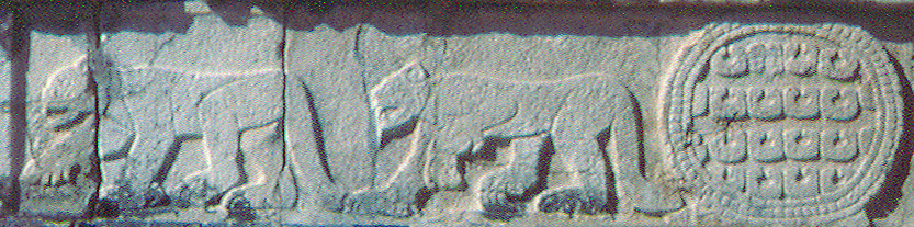 Chichén Itzá, Yucatan, Mexico: procession of jaguars at the Jaguar Temple